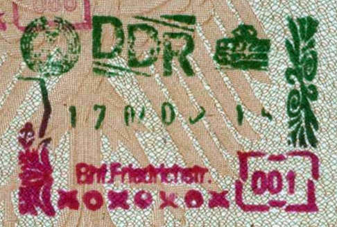 Stamp border crossing Berlin station Friedrichstrasse (1990) in a West German passport.